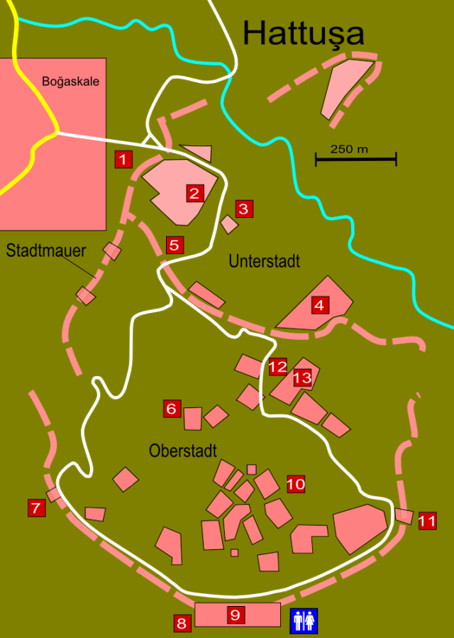 Hattusa Overview Map